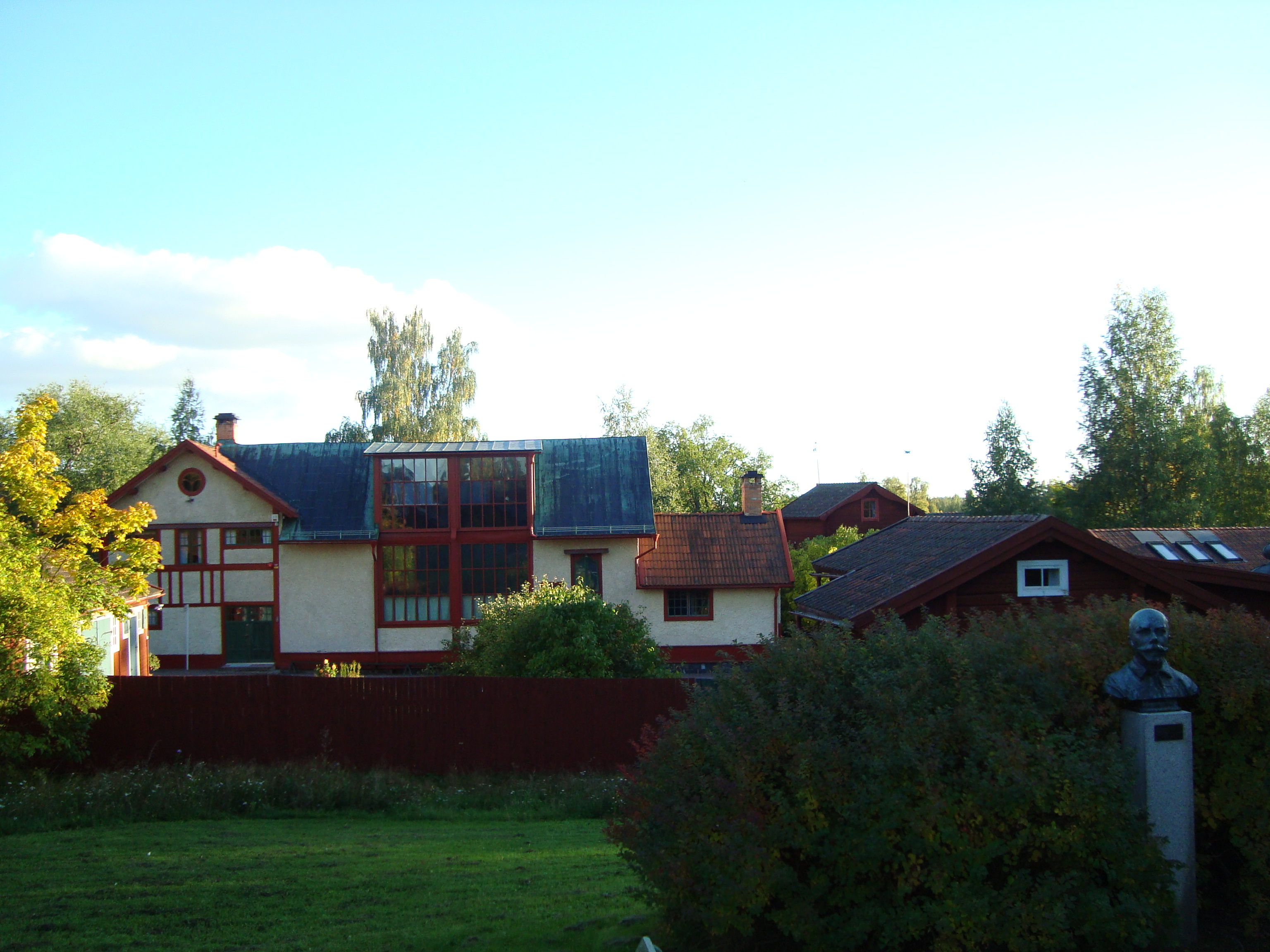 Artist Carl Larsson's estate. Sundborn, Falun municipality, Sweden.